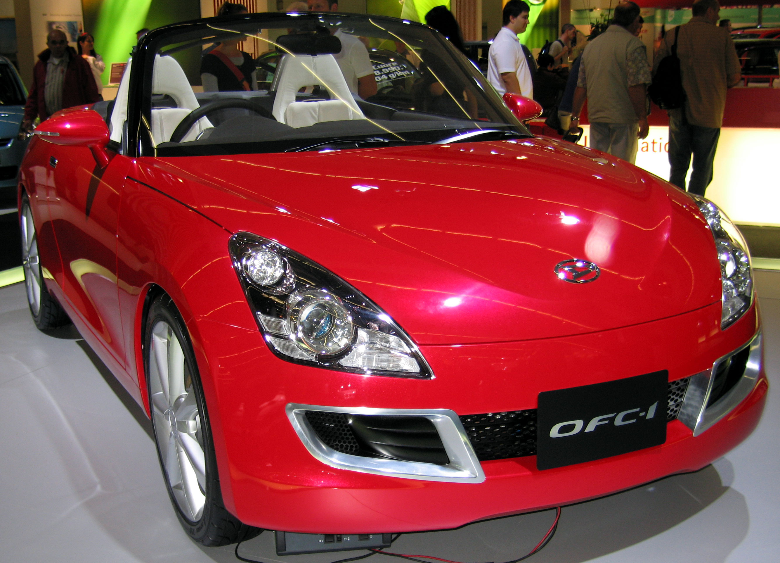 Daihatsu OFC-1 at the IAA 2007